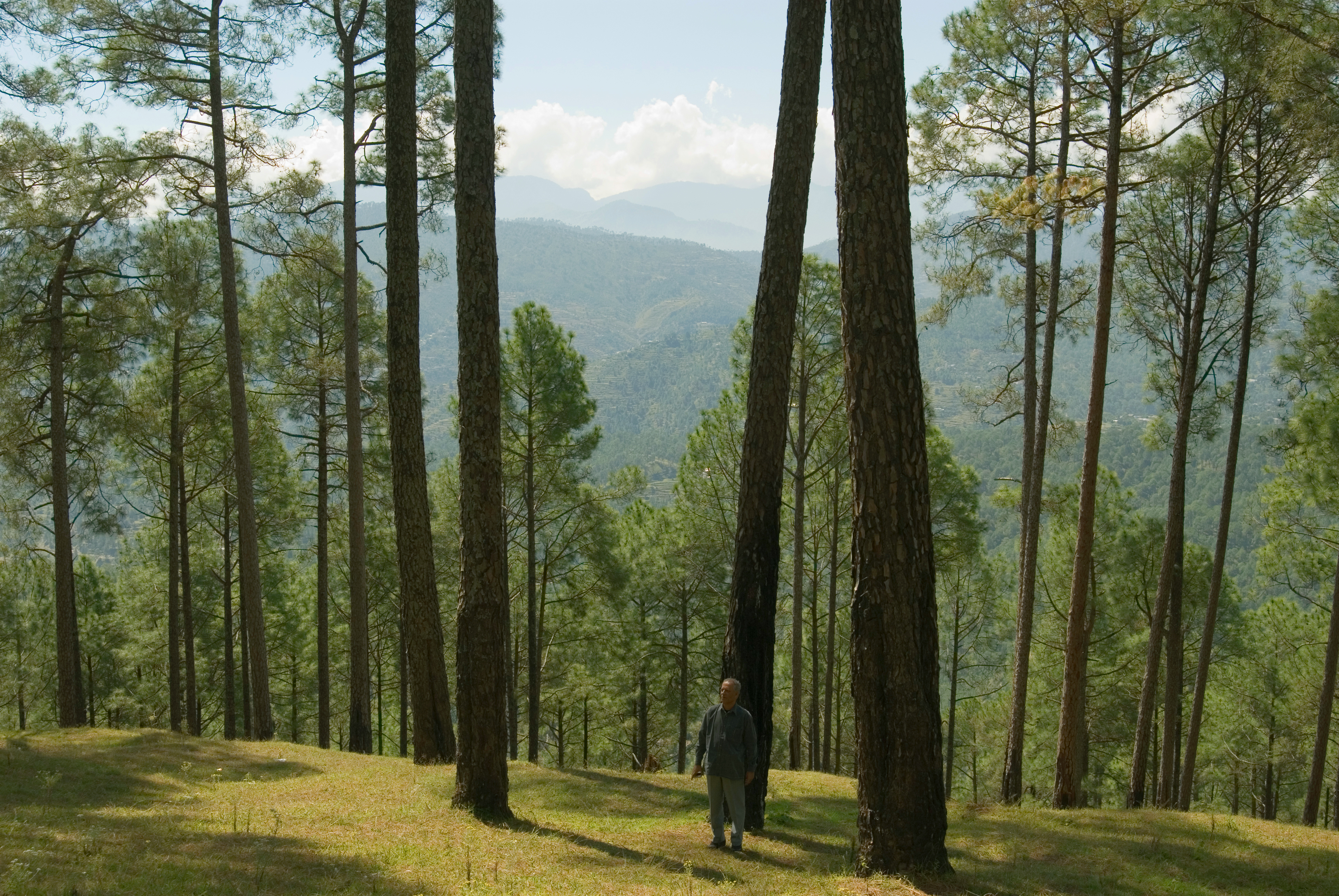 Pinus roxburghii woods in Ranikhet, Uttaranchal (India)